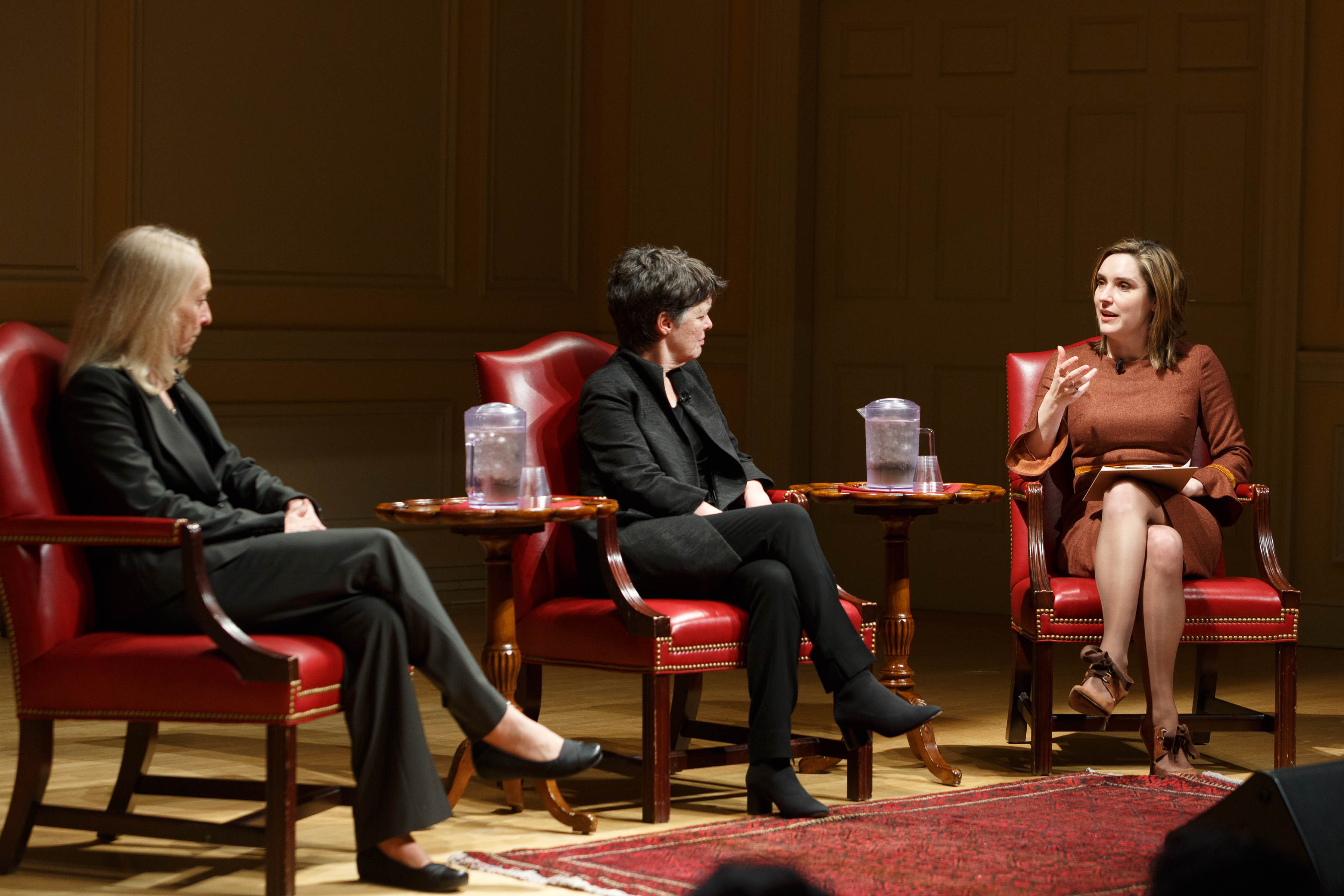 Margaret Brennan (right) speaks with U.S. Rep. Mary Gay Scanlon and Alice McDermott during the "Fearless: A Tribute to Irish American Women" National Book Festival Presents series event, February 6, 2020. Photo by Shawn Miller/Library of Congress. Note: Privacy and publicity rights for individuals depicted may apply.